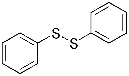 chemical structure of diphenyl disulfide